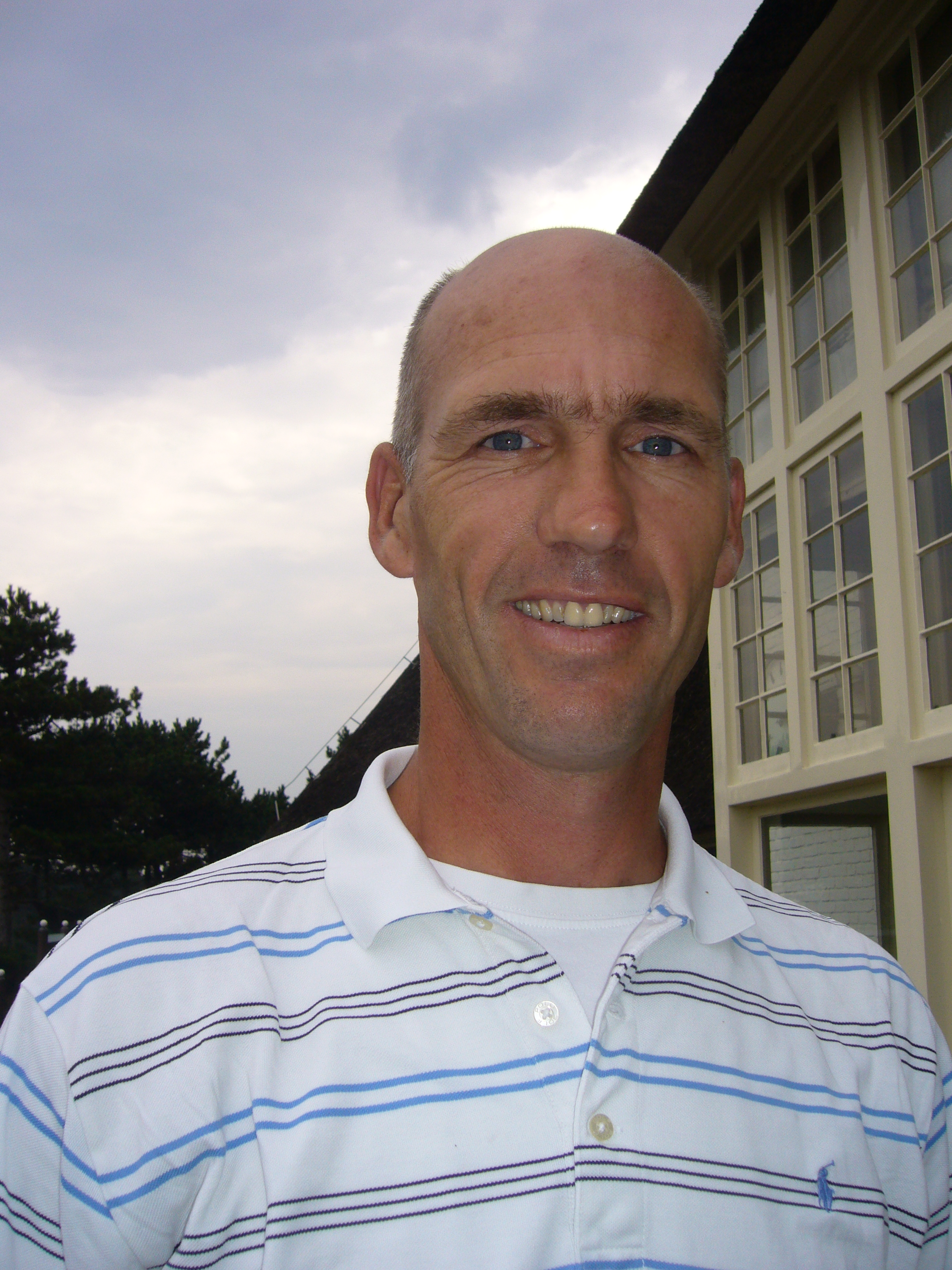 Mark Metgod, Dutch golfprofessional